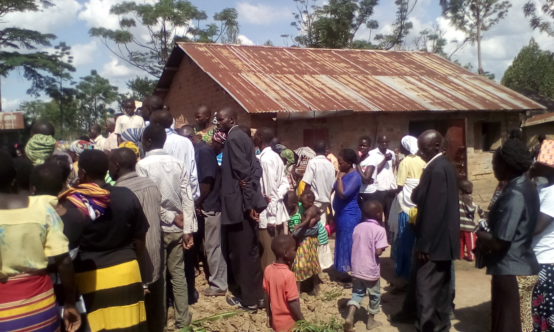 Death is the end. The local in Tororo district, Uganda gathered to show pity for there lost friend This is an image with the theme "Play" from: Uganda